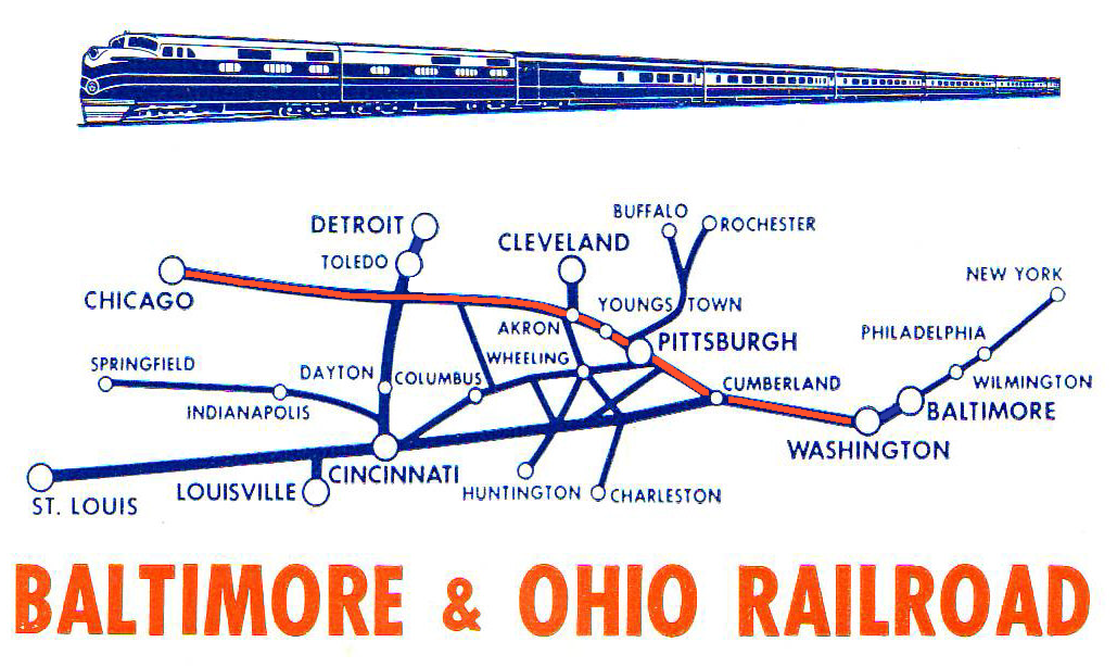 Baltimore and Ohio Railroad (B&O) system map in 1960, with the route of the Chicago-Washington Express highlighted in orange by JGHowes.